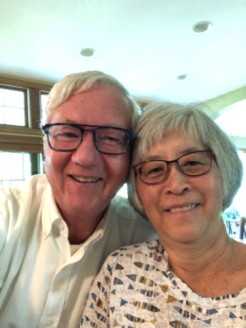 Dale and Liz Deppe pose for a picture in the summer of 2019